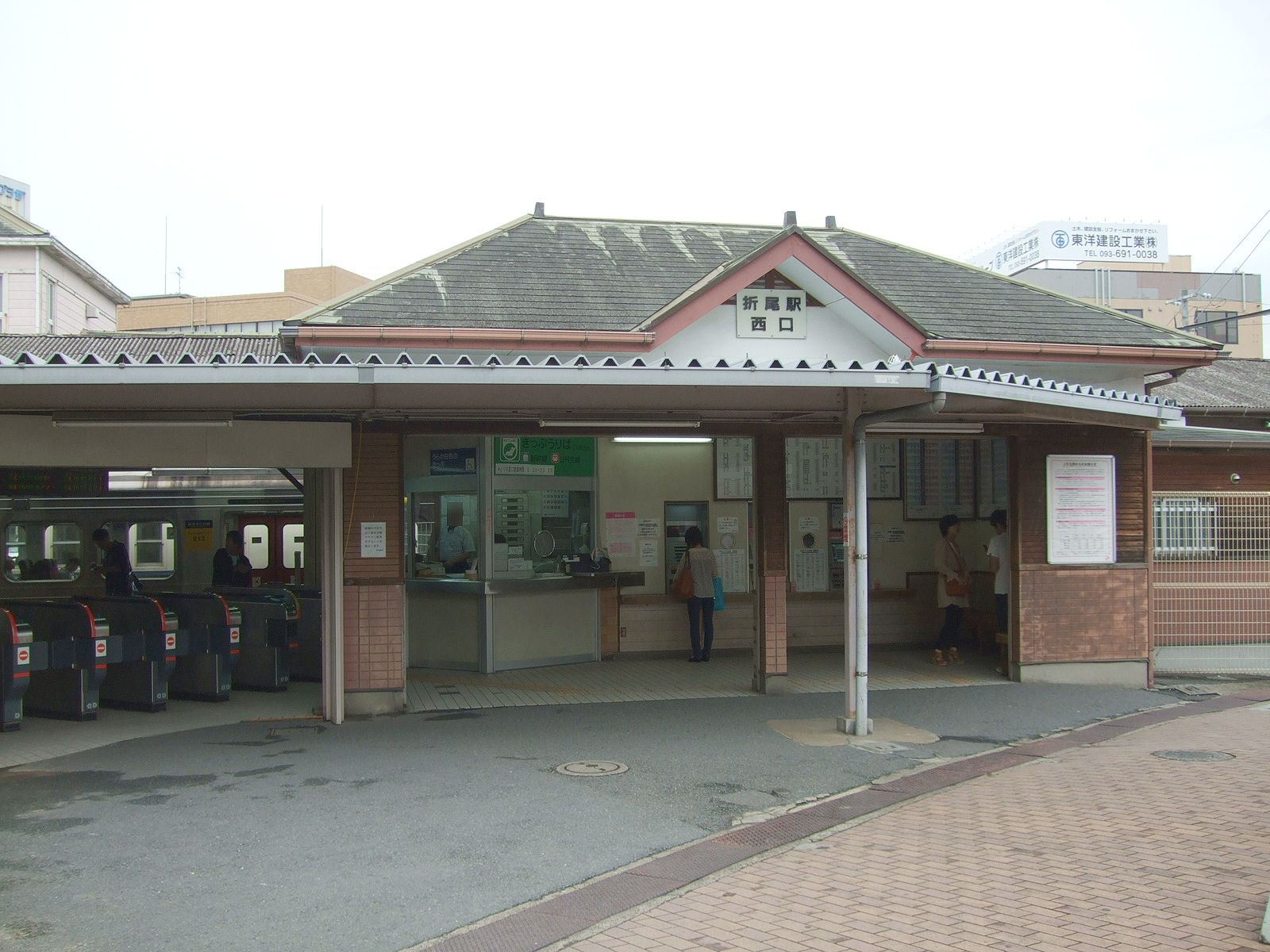 Orio Station (West entrance), Yahatanishi Ward, Kitakyushu, Fukuoka, Japan.